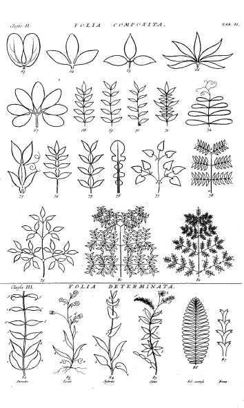 Folia composita et determinata. Illustration from Hortus cliffortianus: plantas exhibens quas, in hortistam vivis quam siccis, Hartecampi in Hollandia, coluit vir nobilissimus et generosissimus Georgius Clifford… Amstelaedami: 1737